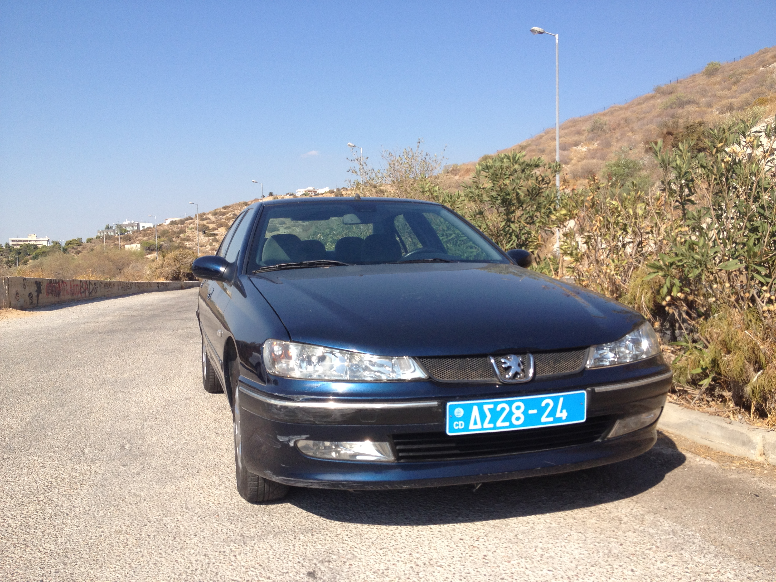 2000 Peugeot 406 Sedan with a Greek diplomatic licence plate at Vouliagmeni, Athens. The letters Delta and Sigma indicate that this is a diplomatic licence plate (Διπλωματικό Σώμα, Diplomatiko Soma, meaning diplomatic corps). The numbers before the dash (28) refer to an embassy or international organisation, the numbers after the dash indicate the individual number of the car. Often, the number also gives an indication of the owner's rank at an embassy. Ambassadors often privately use a licence plate ending with "-1", their deputy often uses the licence plate ending with "-2". Hence this vehicle may be registered to a low-ranking diplomat.